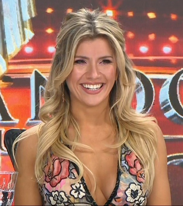 Laurita Fernández en una gala del Bailando 2018 como jurado